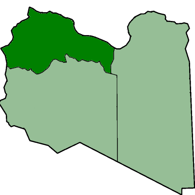 Tripolitania Governorate (dark green). After independence in 1951, until 1963, Libya was divided into three governorates (muhafazat).